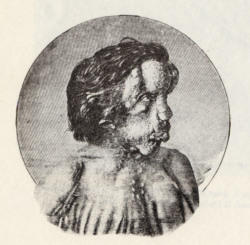 This image of Joseph Merrick (1862–1890) was published in the British Medical Journal in 1886, along with File:Joseph Merrick 1886 1.jpg.